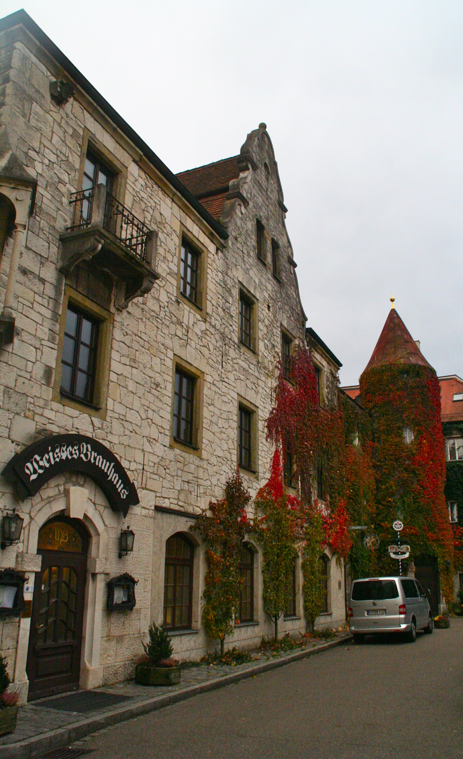 A view of the outside of the Schneider Weisse brewery in Kelheim, Germany.